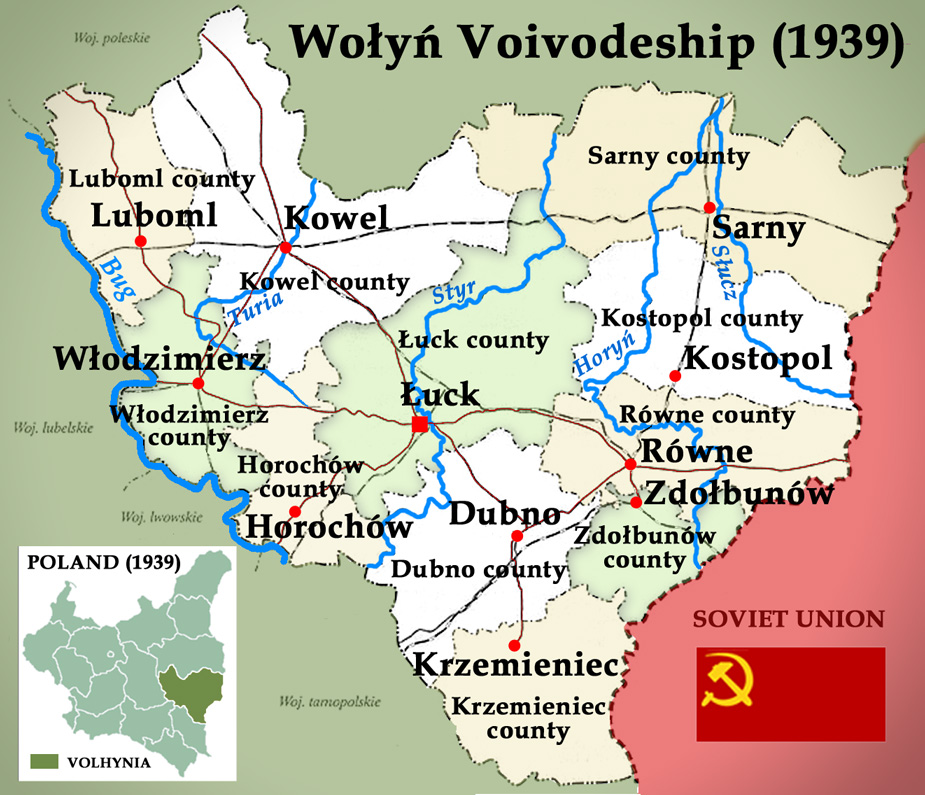 Map of Wołyń Voivodeship / Volhynian Voivodeship before the onset of German and Soviet invasion of Poland in September 1939.